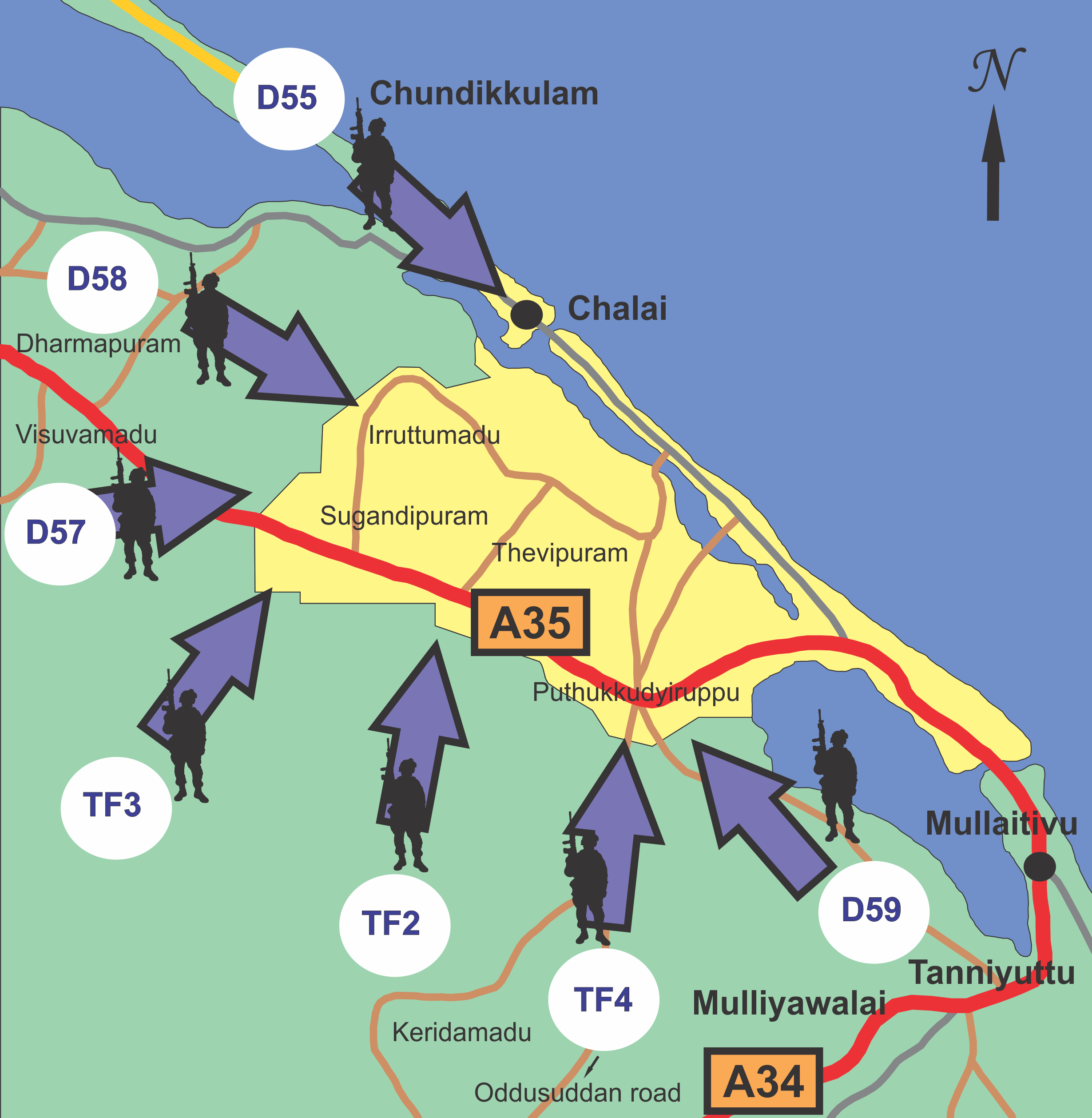 Map showing the situation in the Northern theater of Eelam war IV by 31st January 2009. It only indicates the Sri Lanka Army unit positions. Source: Based on "battle progress map" published by Defence Ministry of Sri Lanka.